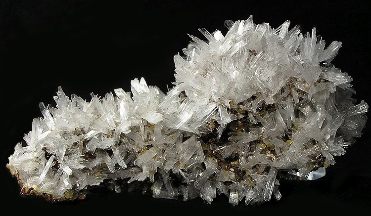 Hemimorphite Locality: Ojuela Mine, Mapimí, Municipio de Mapimí, Durango, Mexico (Locality at ) Size: 14.4 x 6.5 x 3.9 cm. The limonite matrix here is absolutely bristling with glistening, pearly, translucent crystals of hemimorphite. A beautiful example of hemimorphite from this classic locality from its heyday in the 1970s-1980s.